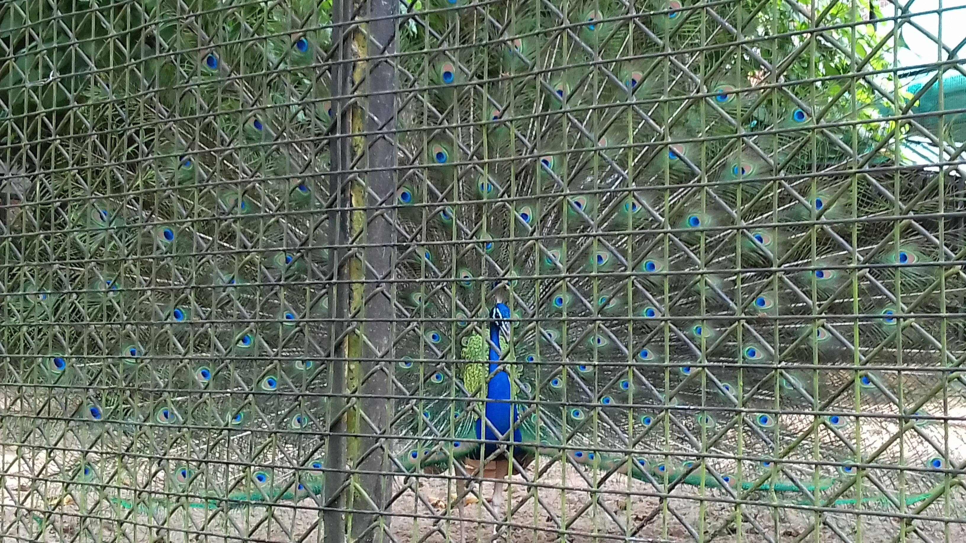 Peacock in Trivandrum zoo